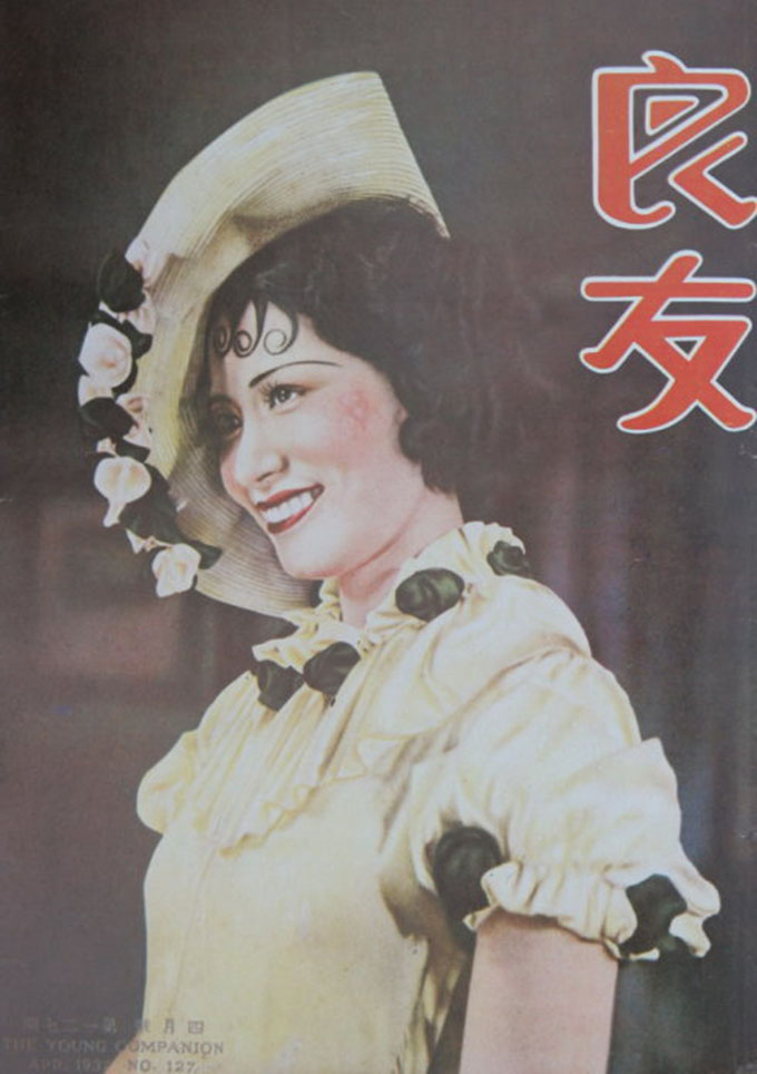 Cover of Liangyou magazine #127, featuring actress Li Yannian (李绮年).